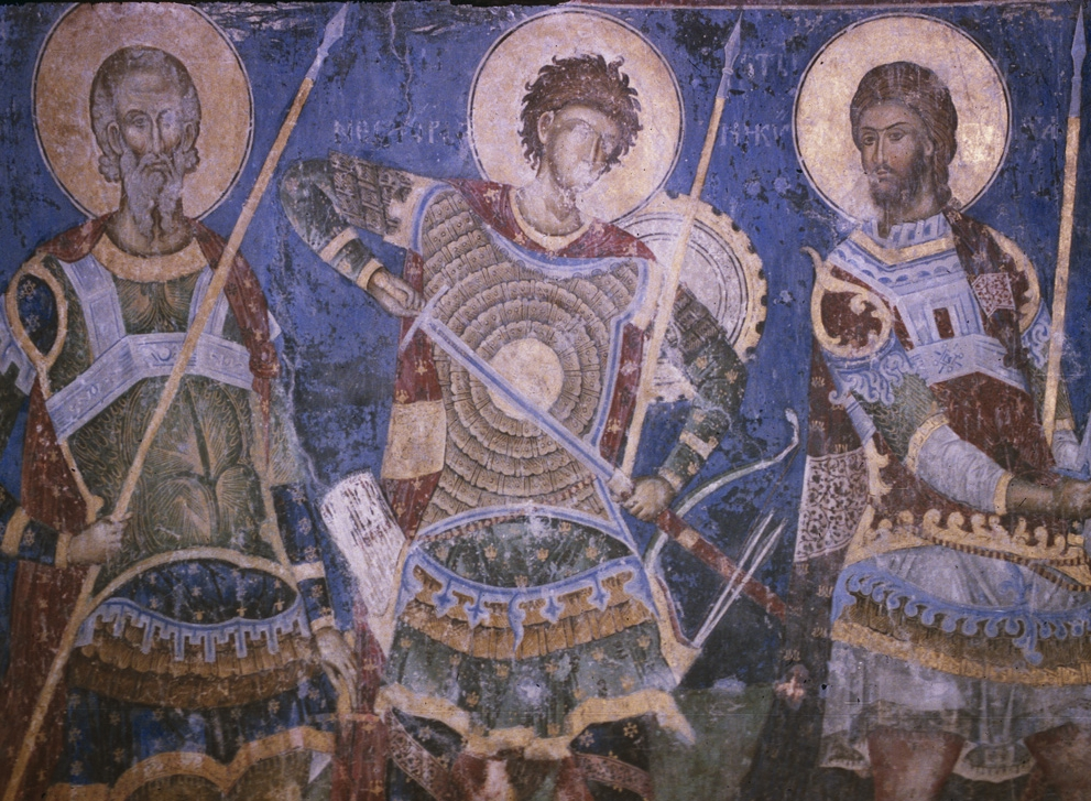 Holy wariors, fresco from Manasija monastery near Despotovac, Serbia.